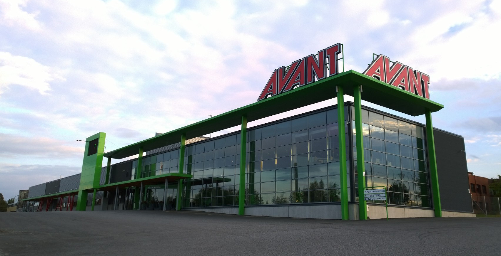 Avant Tecno headquarters and manufacturing plant in Ylöjärvi